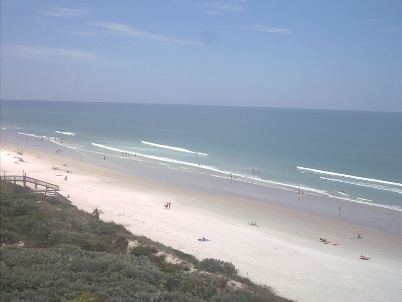 New Smyrna Beach, Florida, United States Photo taken summer 2002 by Tetraminoe Copyright © 2002 by Gavin Baker. Some rights reserved. See photo's page on Flickr